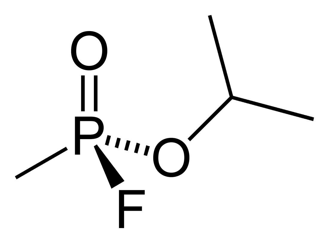 Skeletal formula of the (S) enantiomer of the nerve agent sarin, C4H10FO2P